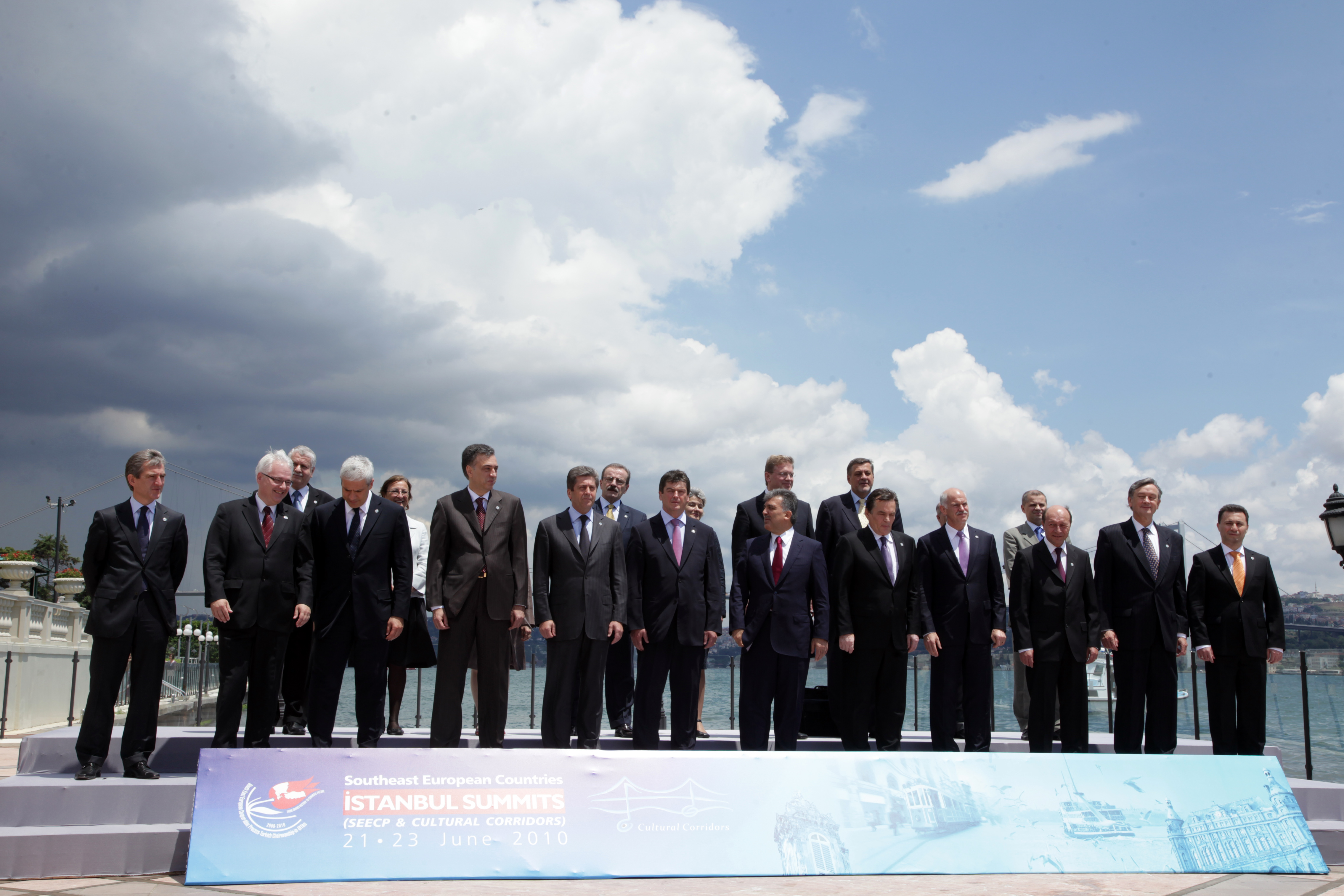 Southeast European leaders pose for a family photo during the SEECP Summit in Istanbul, Turkey. (L to R 1st row) Moldovan Foreign Minister Iurie Leancă, Croatian President Ivo Josipović, Serbia's President Boris Tadić, Bulgarian President Georgi Parvanov, Montenegro's President Filip Vujanović, Albania's President Bamir Topi, Turkey's President Abdullah Gul, Chairman of Tripartite Bosnian Presidency Haris Silajdžić, Greece's Prime Minister George Papandreou, Romania's President Traian Băsescu, Slovenia's President Danilo Türk, Macedonia's Prime Minister Nikola Gruevski.